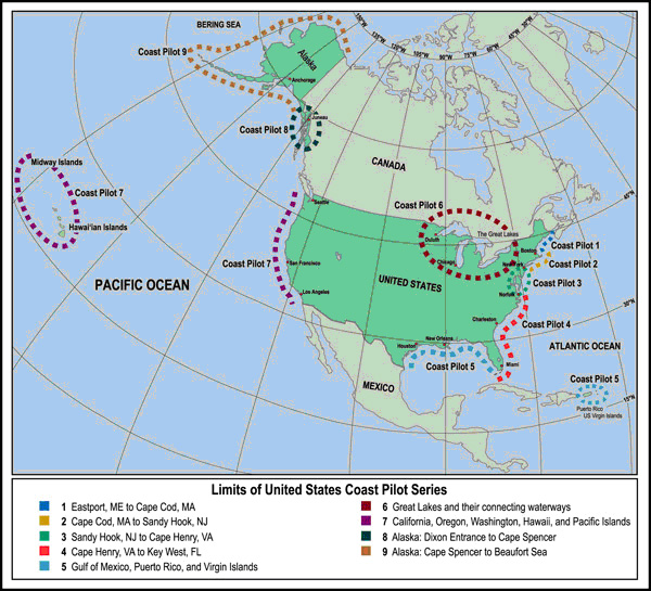 "The United States Coast Pilots" 9 volumes coverage